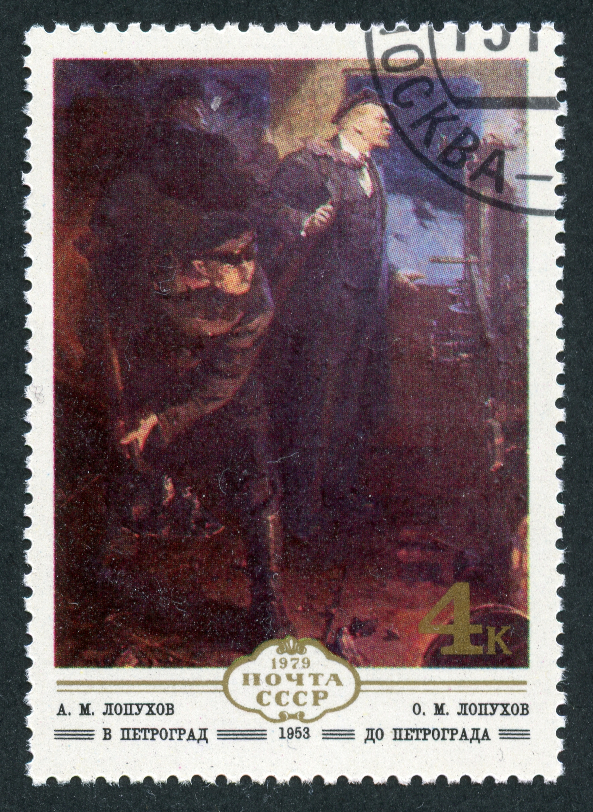 A USSR stamp